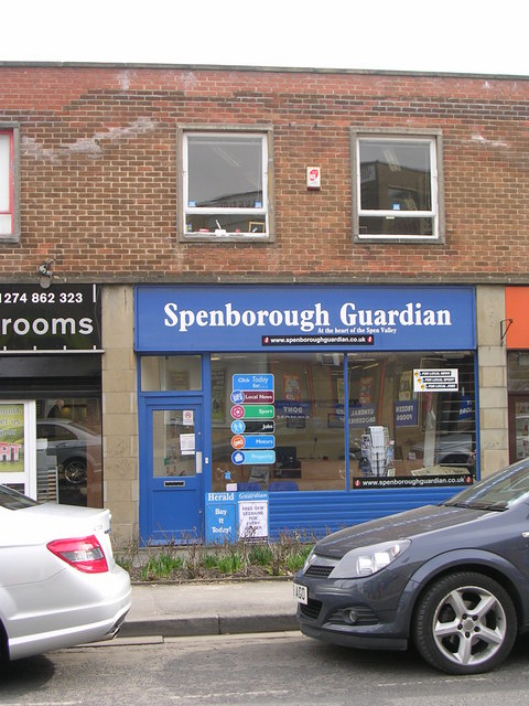 Spenborough Guardian Offices - Market Street